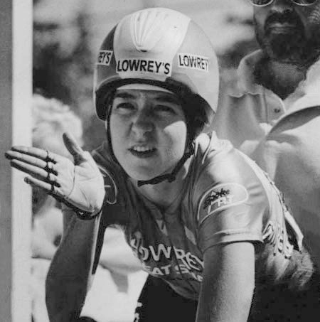 Historic Images - 1988 Press Photo Bicycle Racing Olympic Trials Janelle Parks and Sue Ehlers